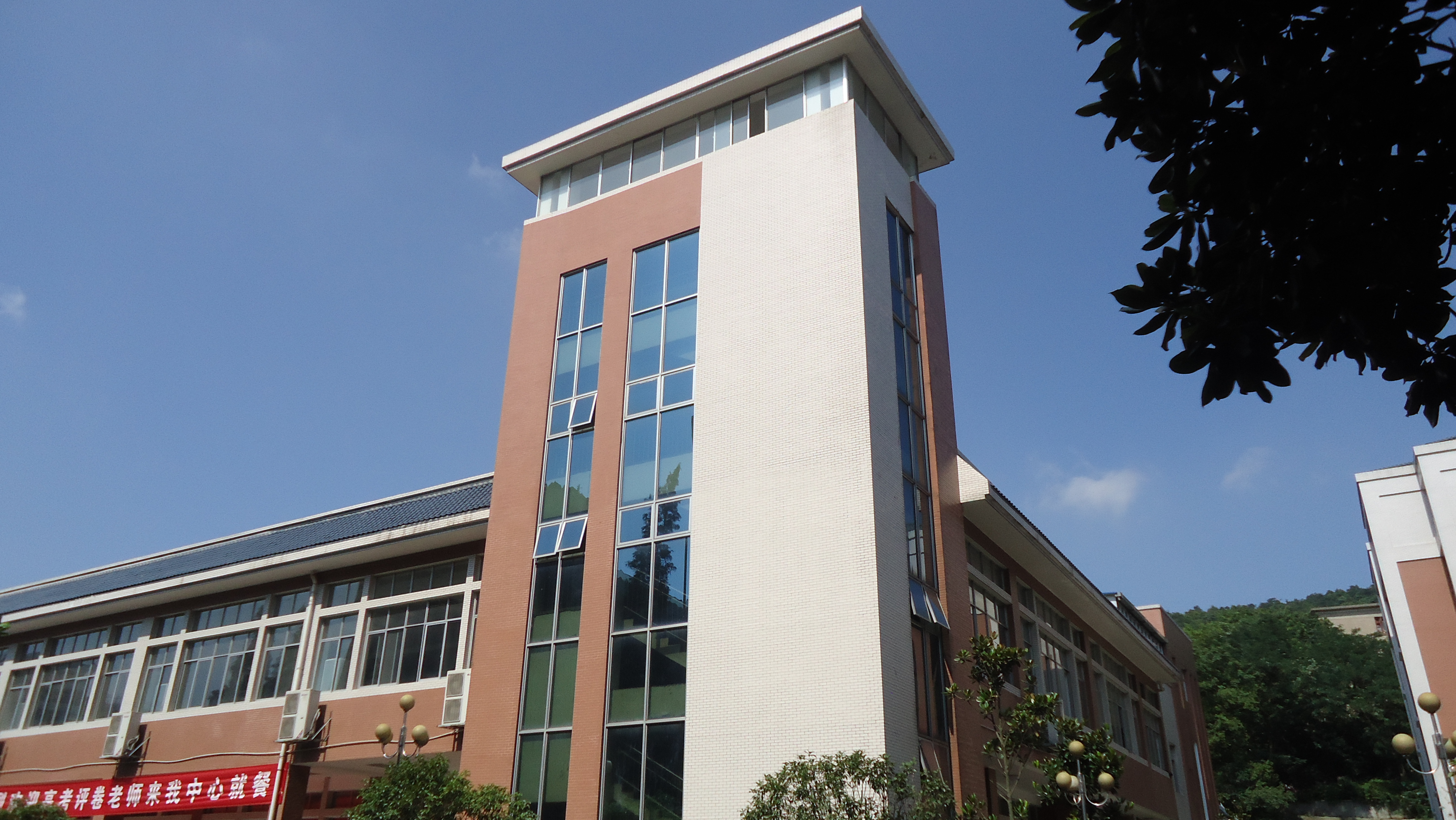 Hunan Normal University,founded in 1938, is a higher education institution located in Changsha, Hunan Province, People's Republic of China. The University is a national 211 Project university, one of the country's 100 key universities in the 21st century that enjoy priority in obtaining national funds.